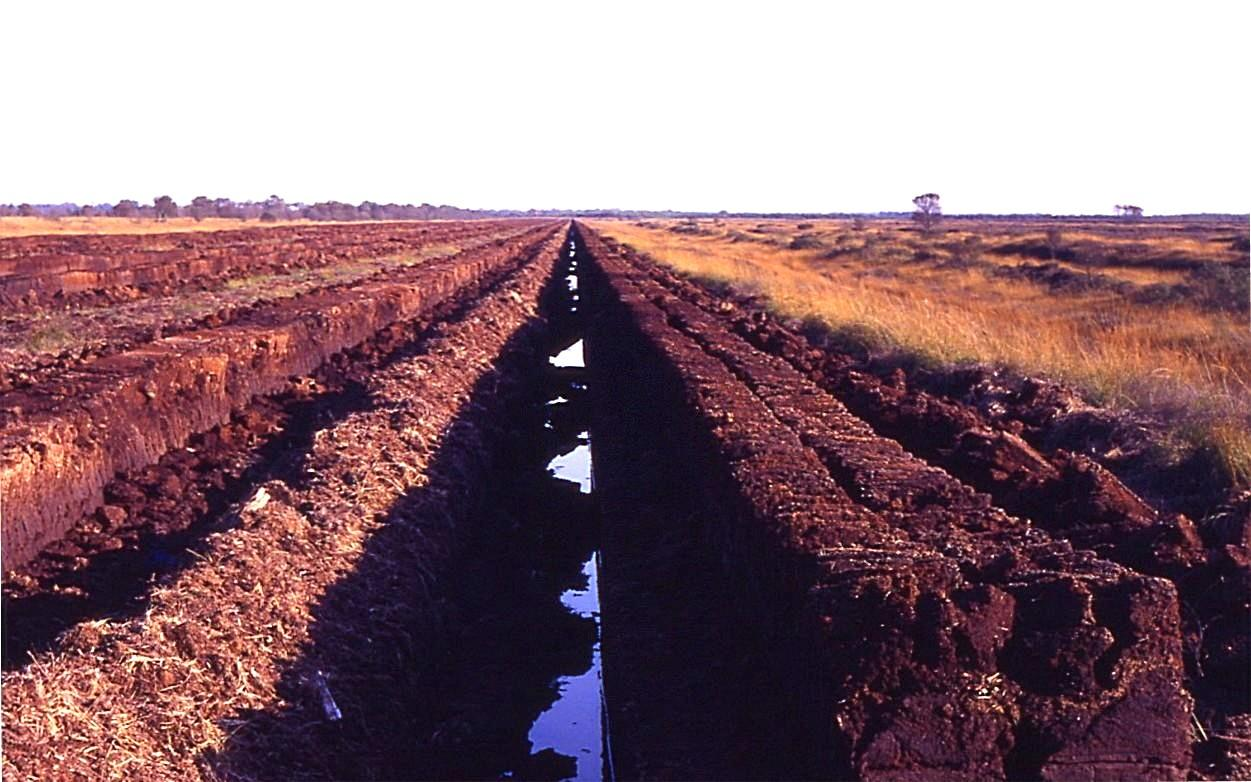 Peat exploitation in the nature reserve (!) "Ewiges Meer" ("Eternal lake"), a big moor lake in East Frisia, NW Germany.